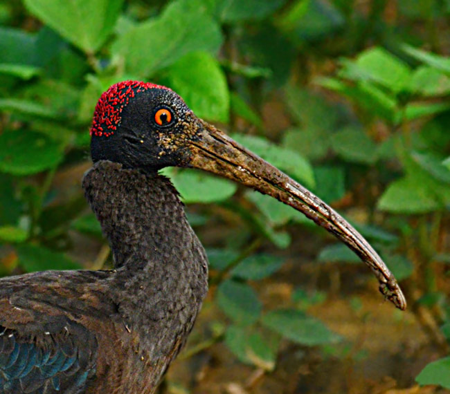 Taken by me at Pusa Campus, New Delhi